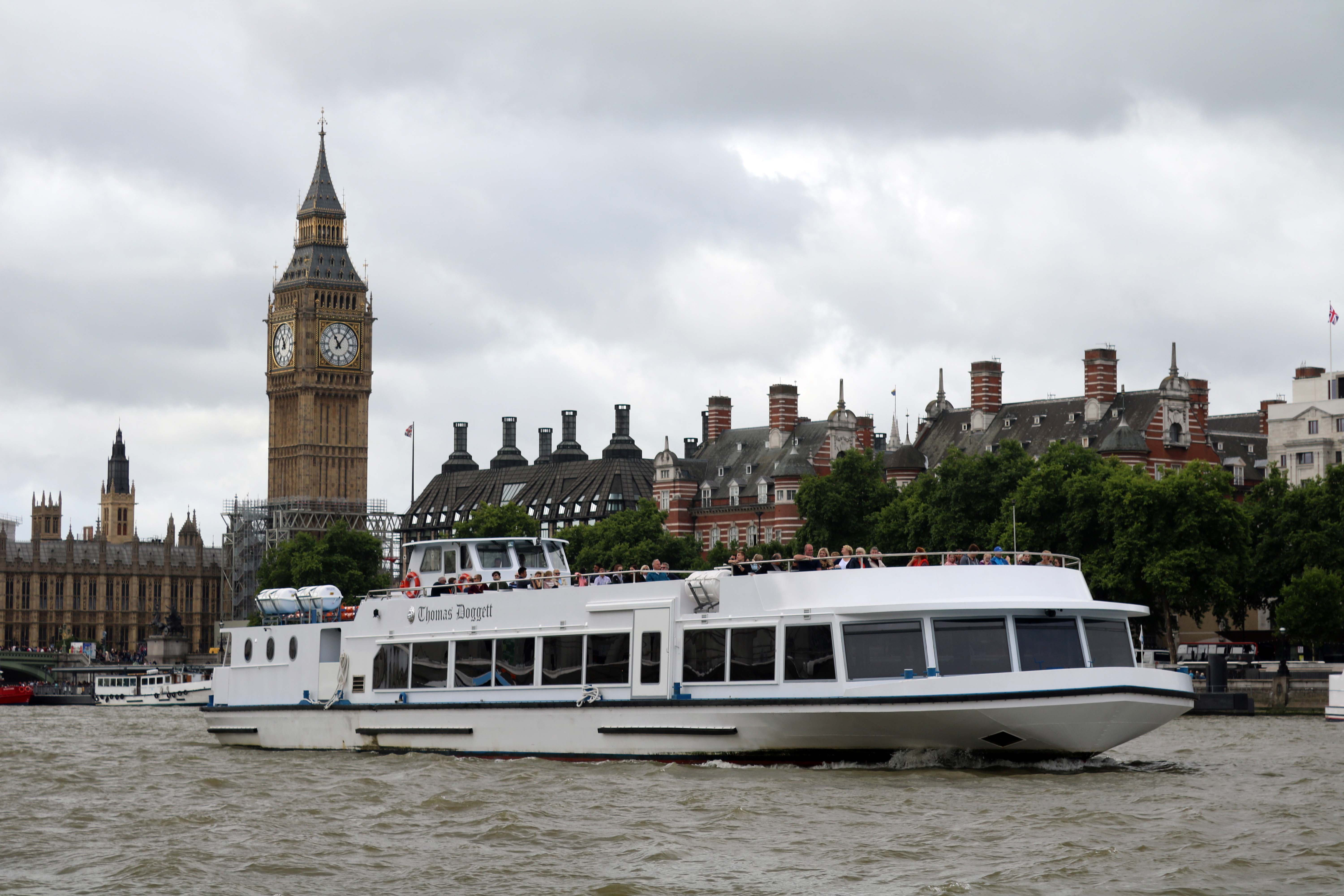 Thames River Services M.V Thomas Doggett on her way to the Royal Borough of Greenwich. Photo Credit: Michael Hammond (Viscount Cruises)